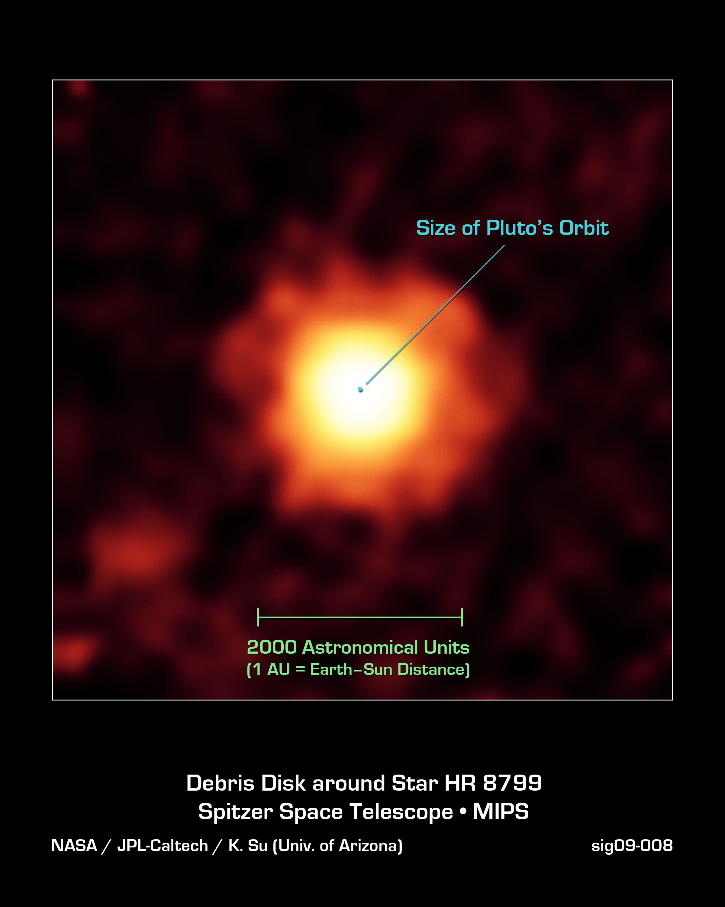 NASA's Spitzer Space Telescope captured this infrared image of a giant halo of very fine dust around the young star HR 8799, located 129 light-years away in the constellation Pegasus. The brightest parts of this dust cloud (yellow-white) likely come from the outer cold disk similar to our own Kuiper belt (beyond Neptune's orbit). The huge extended dust halo is seen as orange-red. Astronomers think that the three large planets known to orbit the star are disturbing small comet-like bodies, causing them to collide and kick up dust. The extended dust halo has a diameter of about 2,000 astronomical units, or 2,000 times the distance between Earth and the sun. For reference, the size of Pluto's orbit is tiny by comparison, with a diameter of about 80 astronomical units. This image was captured by Spitzer's multiband imaging photometer at an infrared wavelength of 70 microns in Jan. 2009. (original Description: HR 8799 Debris Disk by Spitzer's multiband imaging photometer at an infrared wavelength of 70 micrometres in January 2009